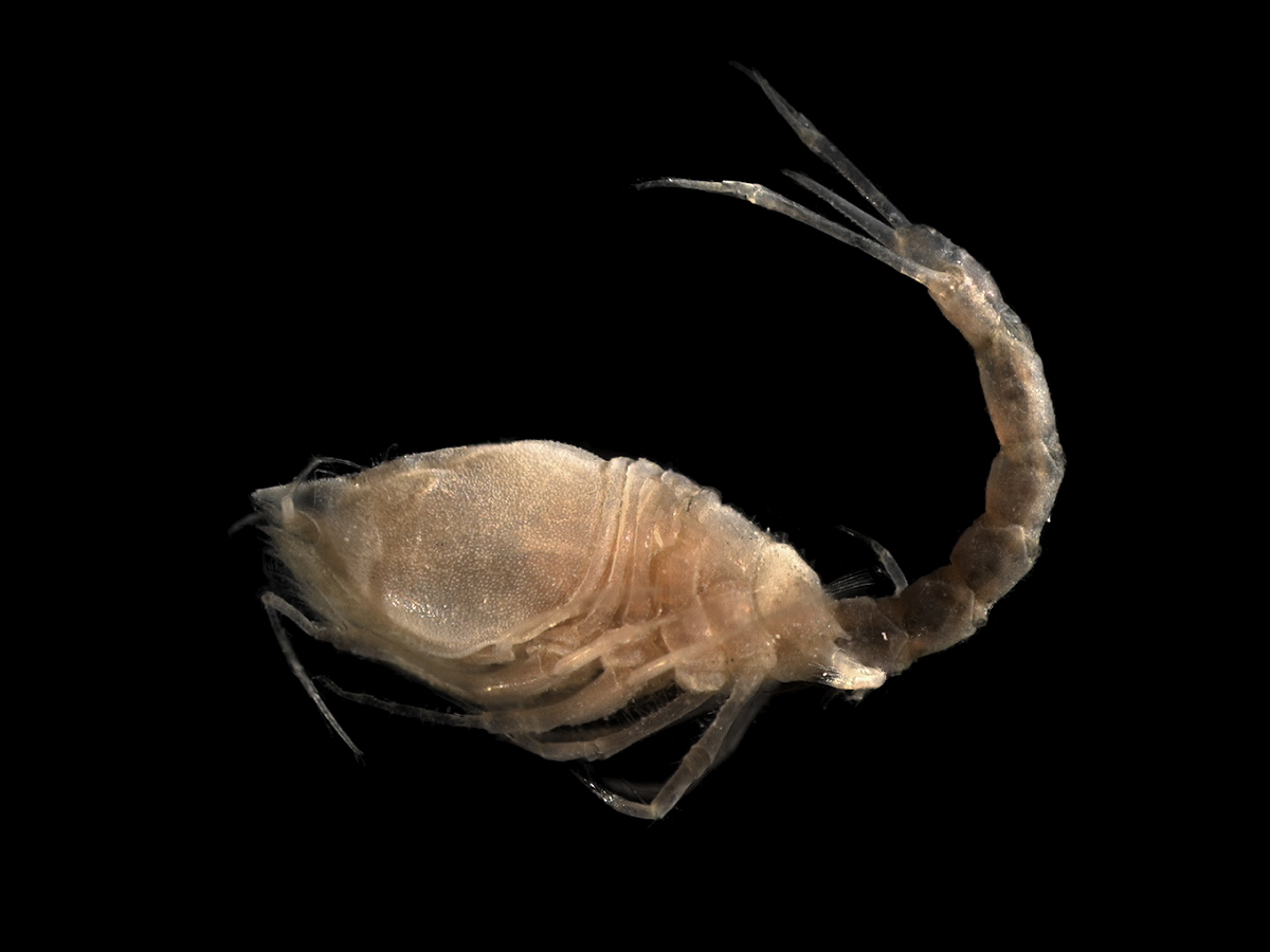 Cumacean photographed with an Axiocam (Zeiss) camera mounted on a Zeiss Stemi C-2000 binocular microscope. Length: ~8 mm This cumacean was sampled on the Belgian Continental Shelf in 2001. Geo-location not applicable as the picture was taken in the lab.